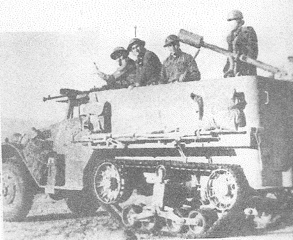 Fire Thrower half truck in the war of Independence